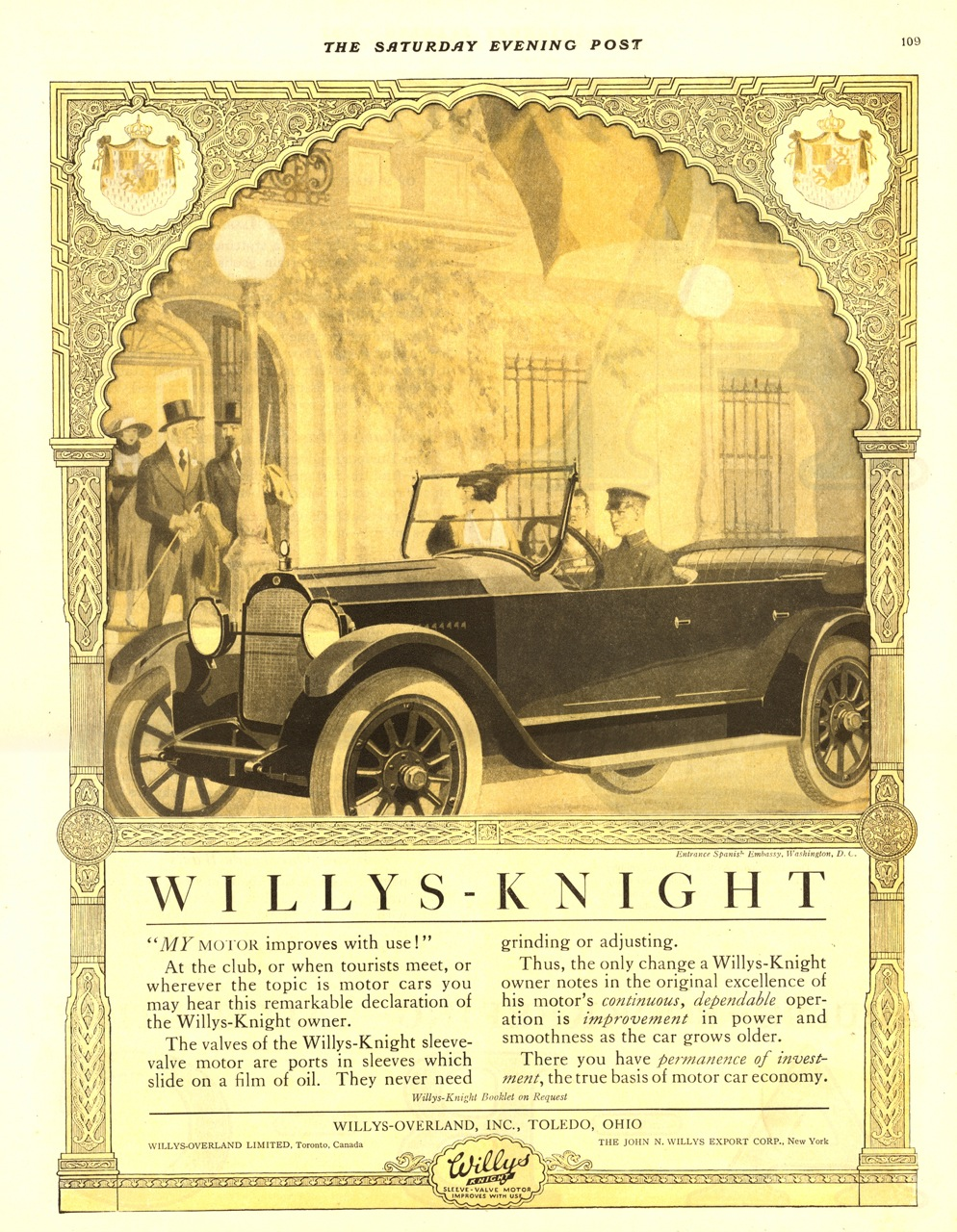 1920 advertisement for Willys-Knight automobile.